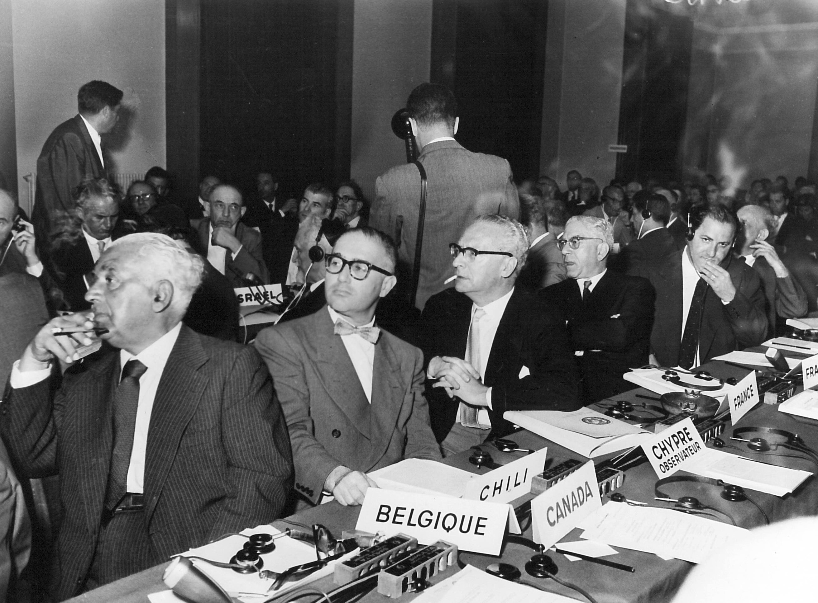 Delegates at the World Jewish Congress 25th Anniversary Conference in Geneva, Switzerland, 20-23 August 1961